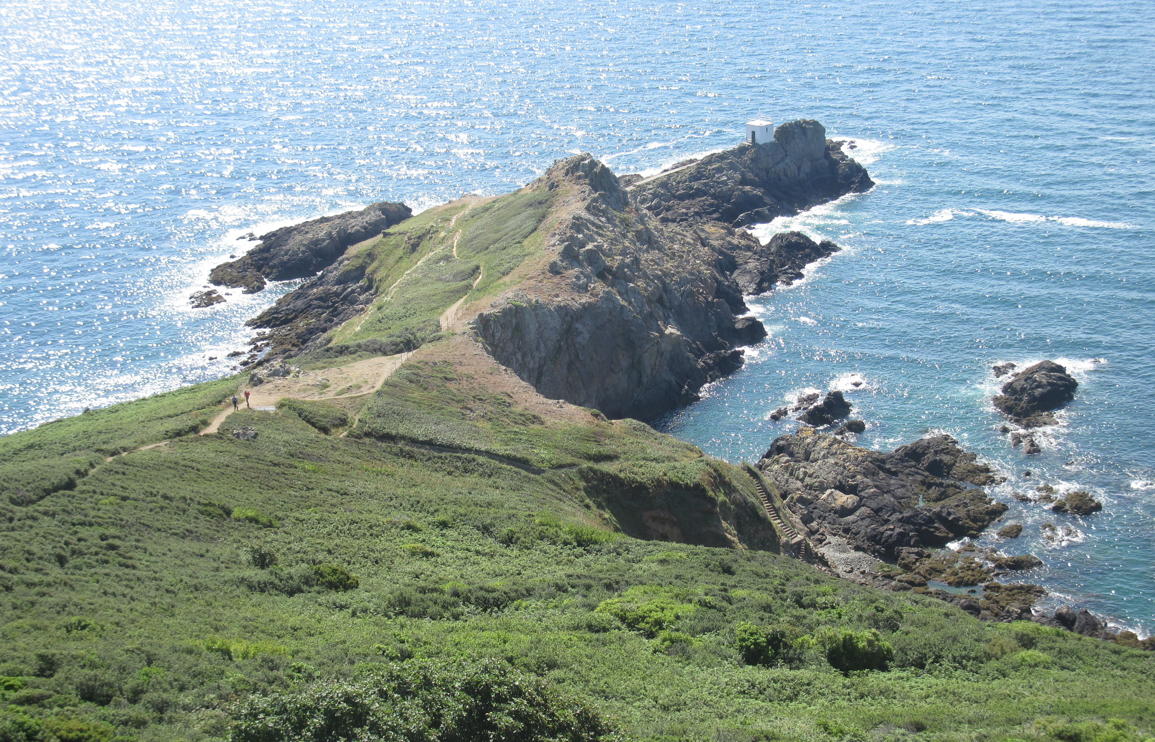 Guernsey, July 2011: St. Martin's Point